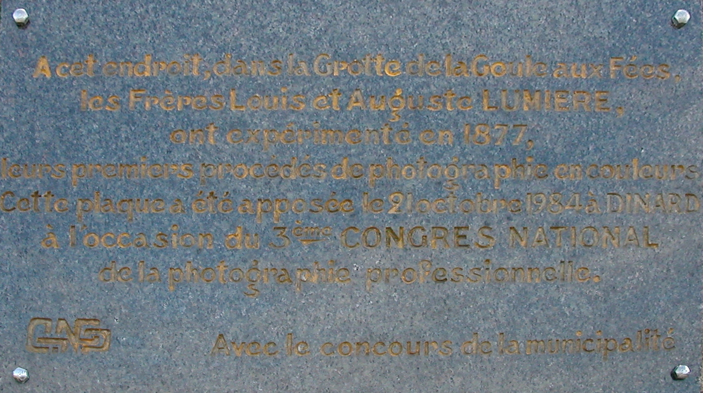 Plaque commemorating the Auguste and Louis Lumière's experimentations in Dinard